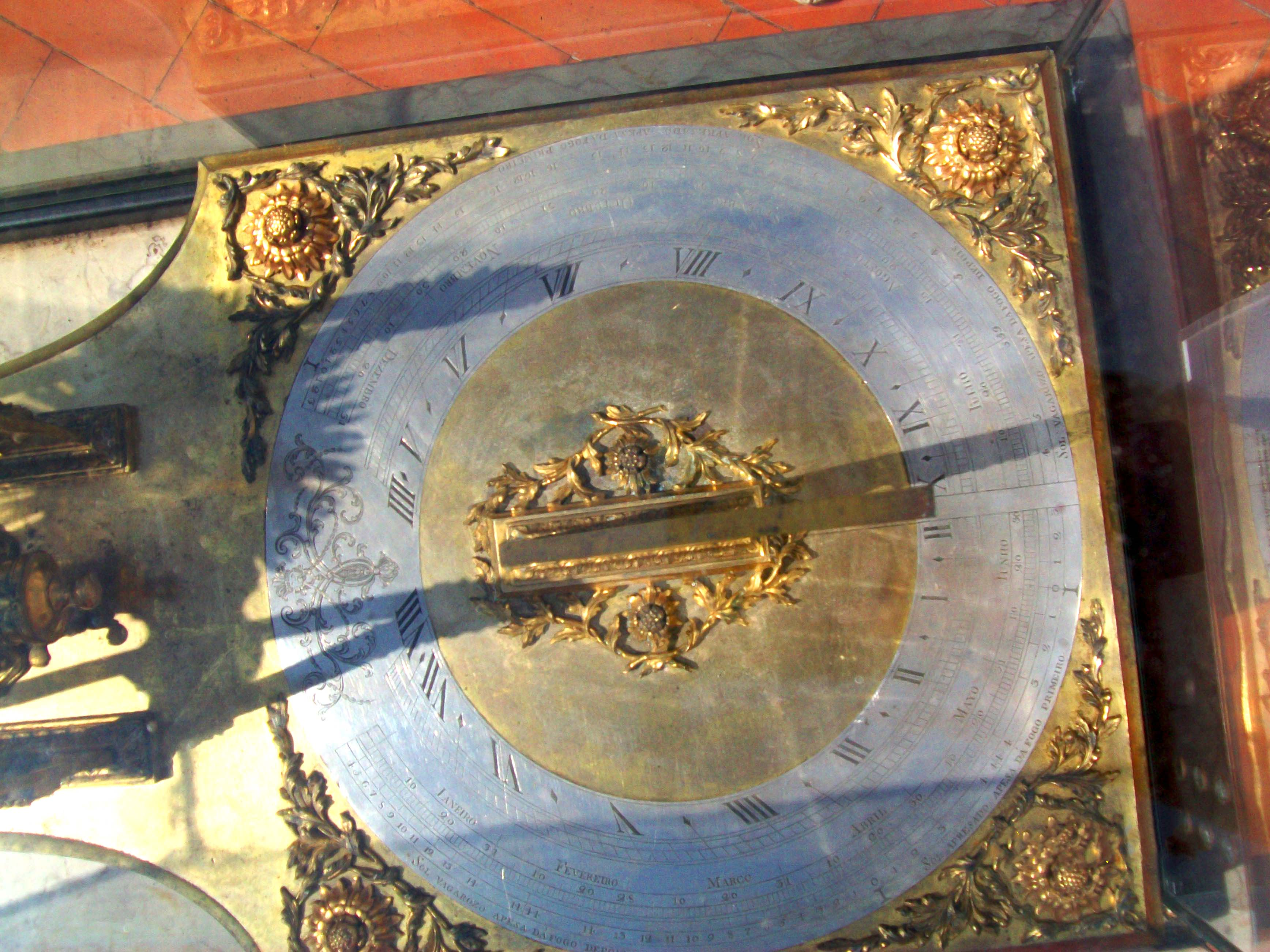 Sun dial with automatic cannon at the Queen`s Terrace at the Palácio da Pena palace , Portugal